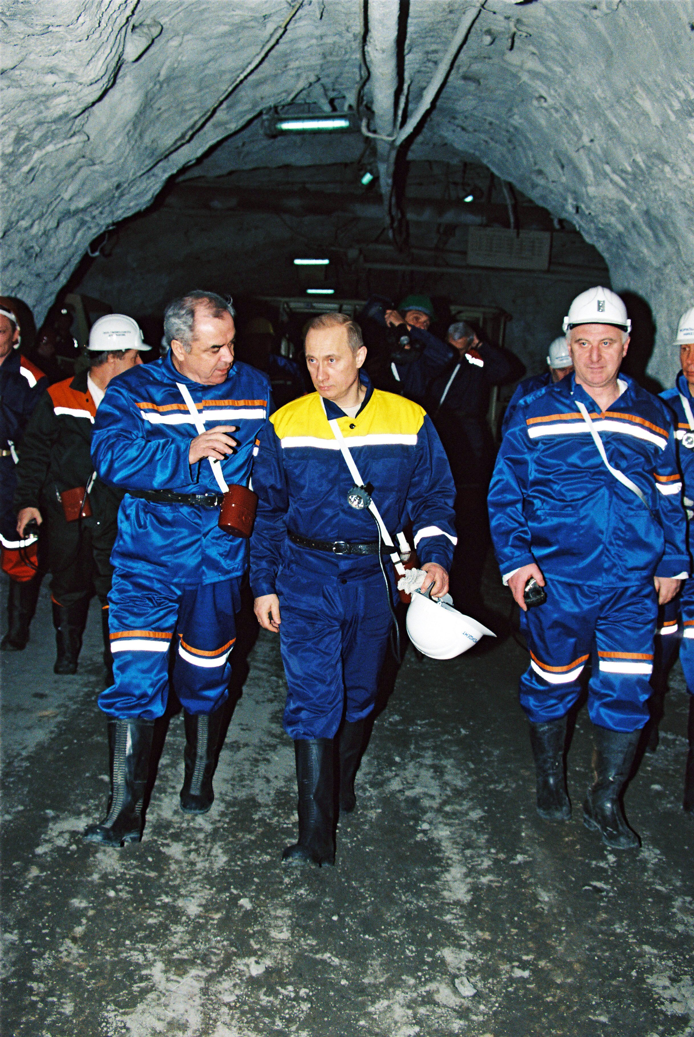 TAIMYR (DOLGANO-NENETS) AUTONOMOUS DISTRICT. President Putin with Johnson Khagazheyev (left), general director of the transpolar subsidiary of the Norilsk Nickel mining and metals plant, and Batraz Kubalov, mine director, visiting operations one kilometer below ground at Oktyabrsky Mine.